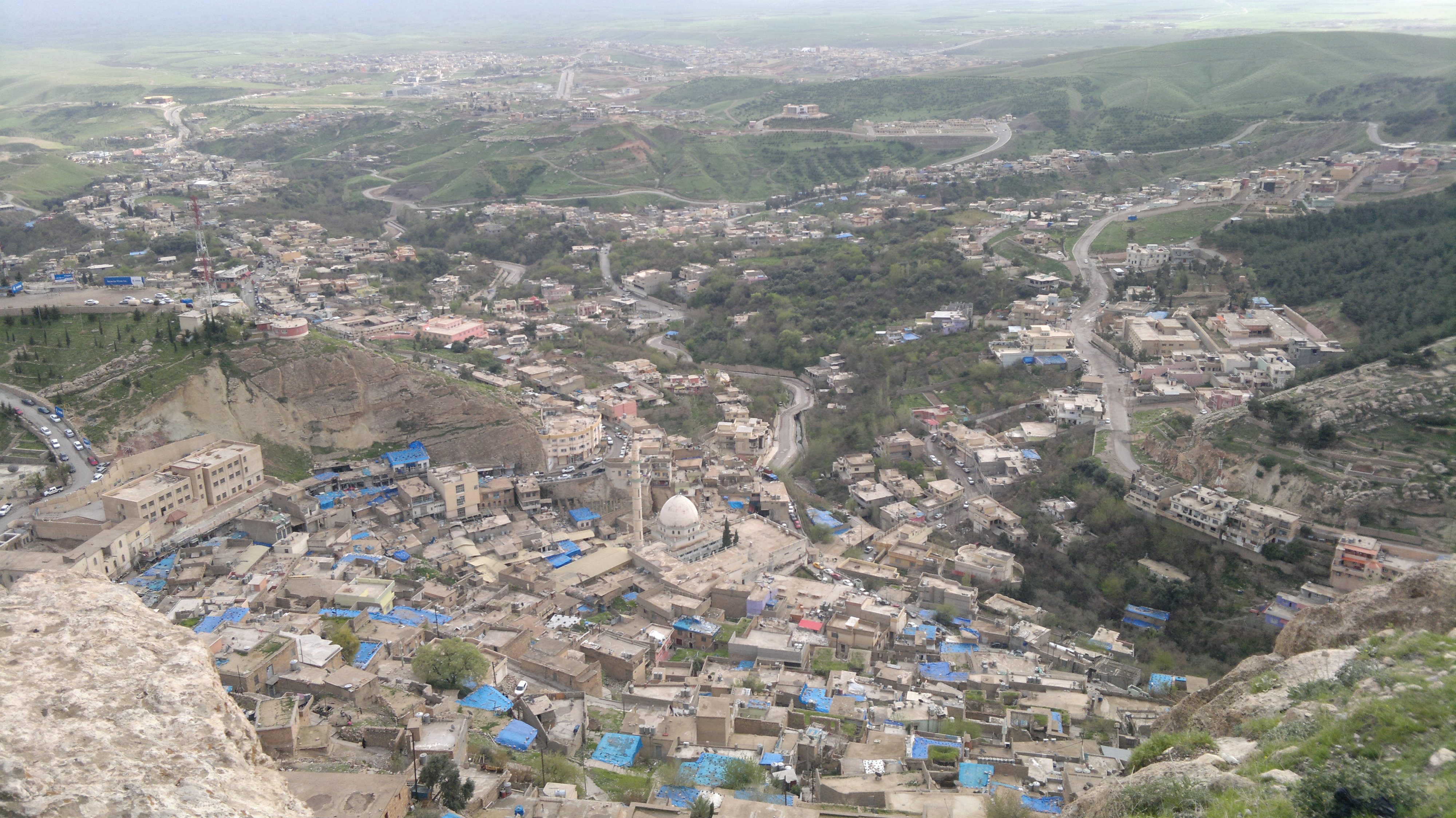 Aqra city in Kurdistan Region